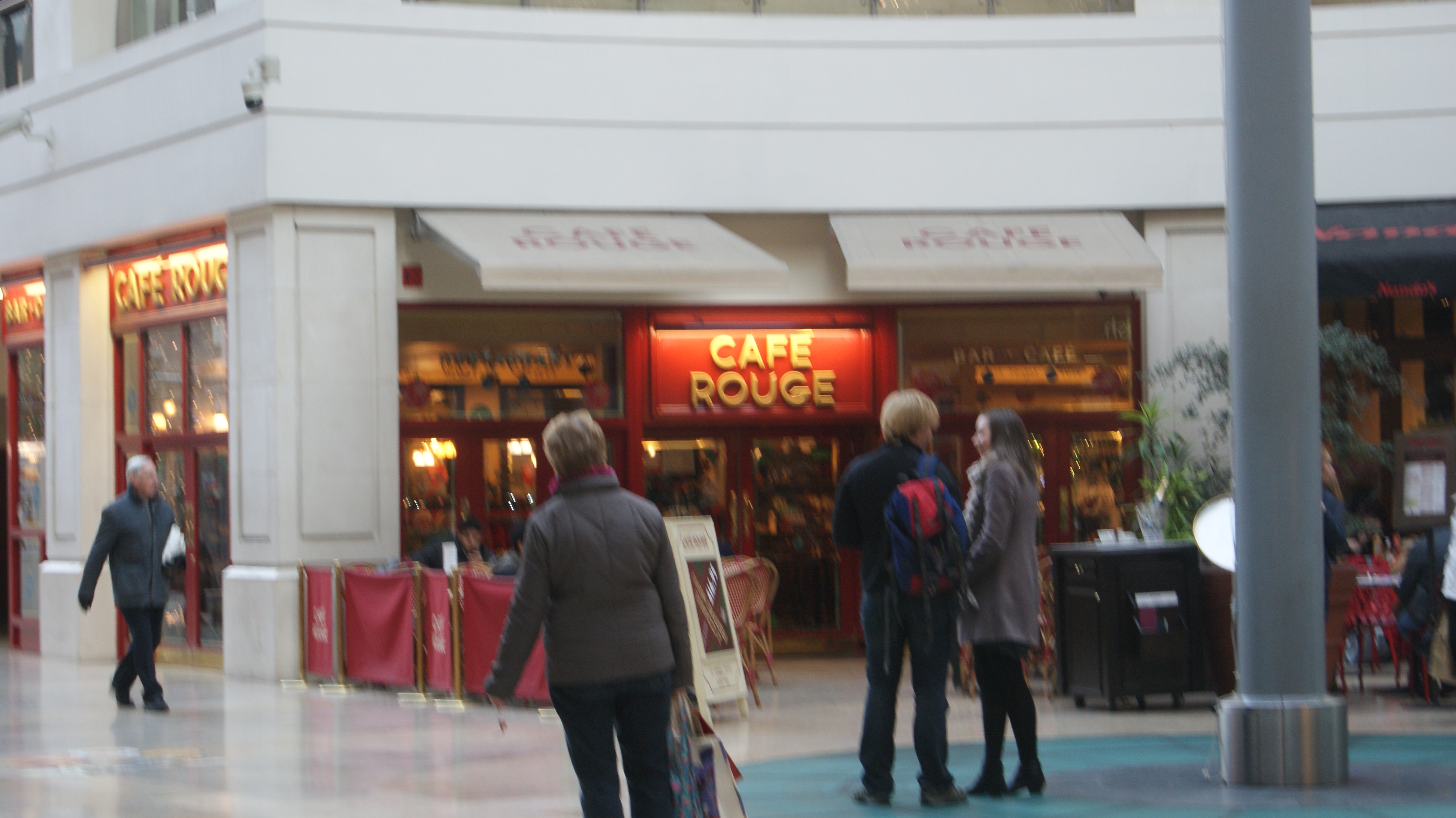 Café Rouge at The Light in Leeds, West Yorkshire. Taken on the afternoon of Monday the 17th of December 2012.